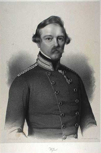 Hans Juel (1797-1875), Danish nobleman, estate owner, and major